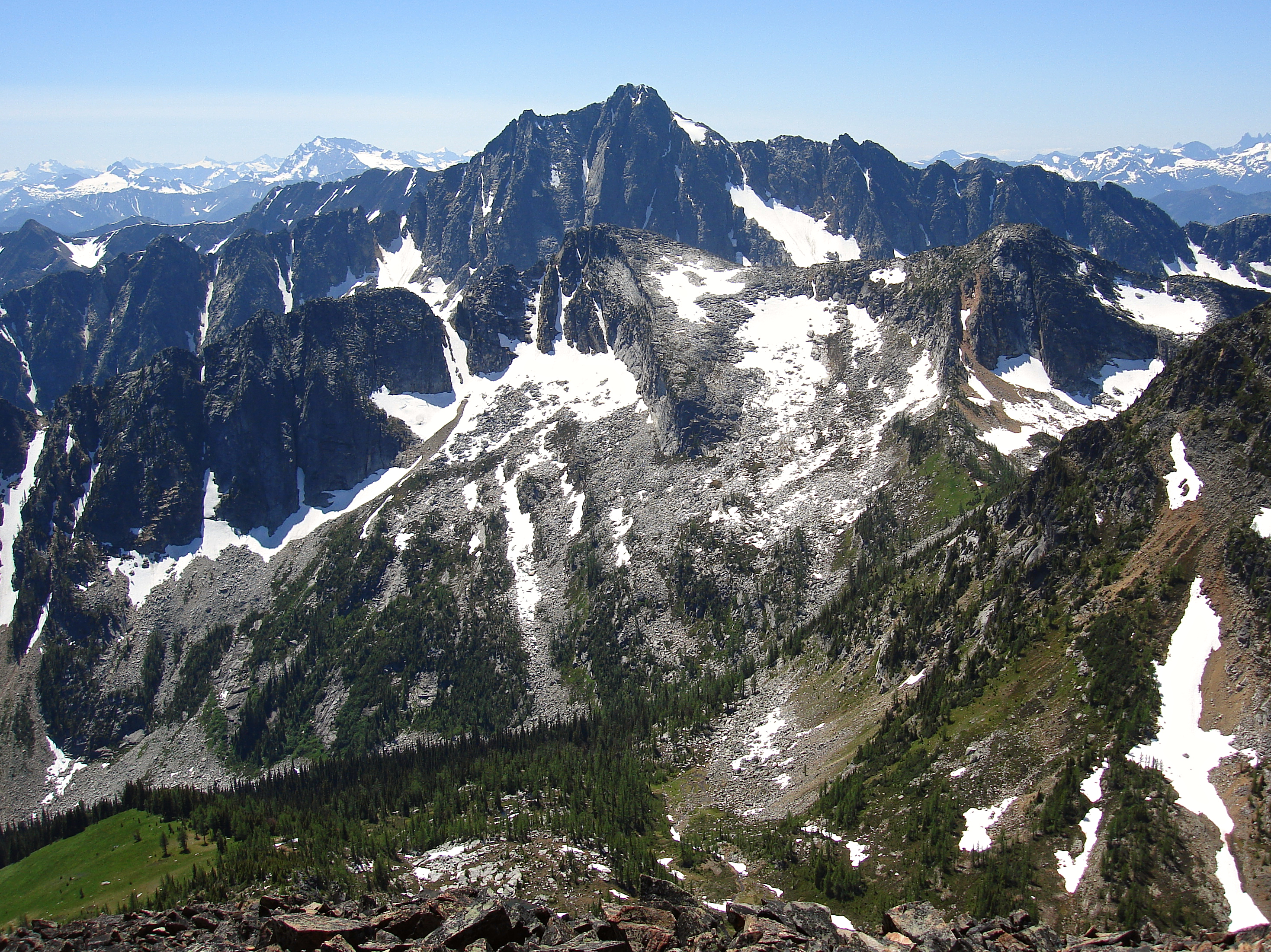 Looking south towards U.S. border, from Mt. Frosty with Castle Peak in the distance